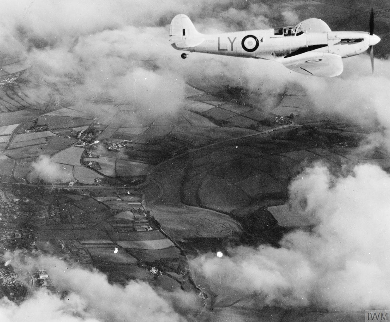 A Royal Air Force Supermarine Spitfire Mark I of No. 1 Photographic Reconnaissance Unit RAF in flight. 1 PRU was based at Heston Aerodrome, wet of London (UK).